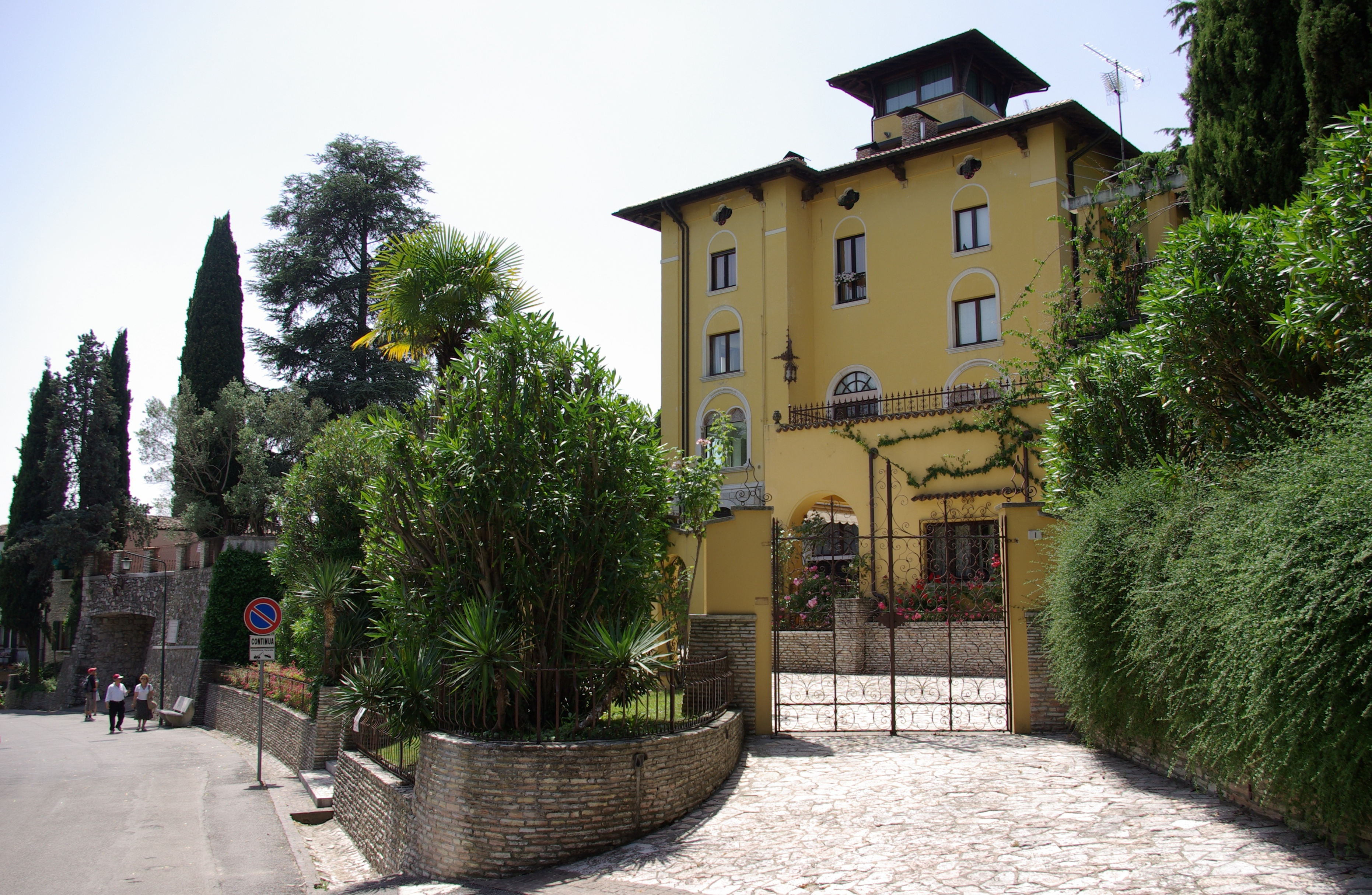 The Villa Maria Callas lived in Sirmione with Giovan Battista Meneghini between 1950 and 1959.